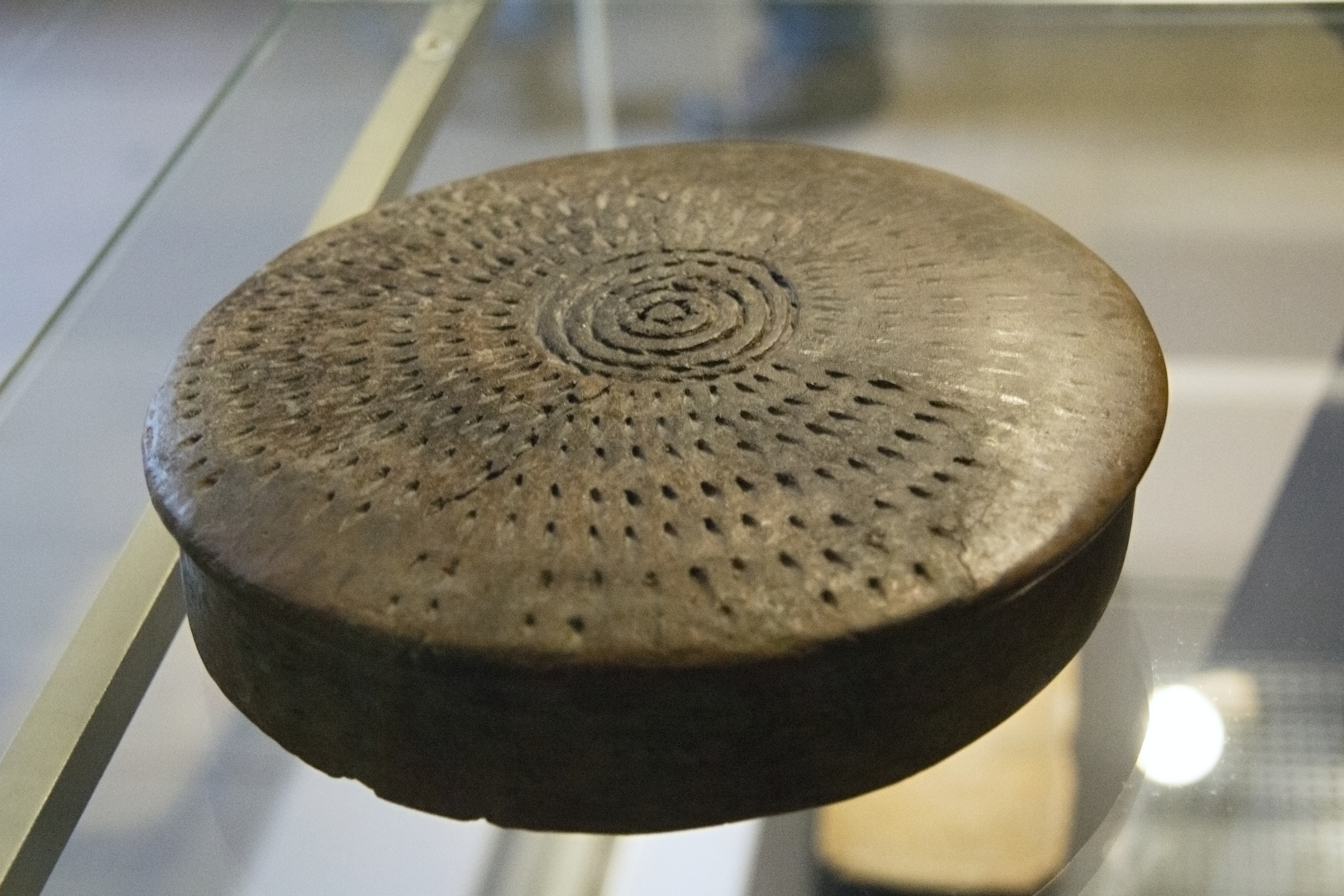 Cycladic „Frying pan“ with stamped decoration. Antiparos, Early bronze age (EC II), 2800 – 2700 BC. Excavated by J. T. Bent. British Museum, GR 1884.12-13.49 BM Cat Vases A 315.